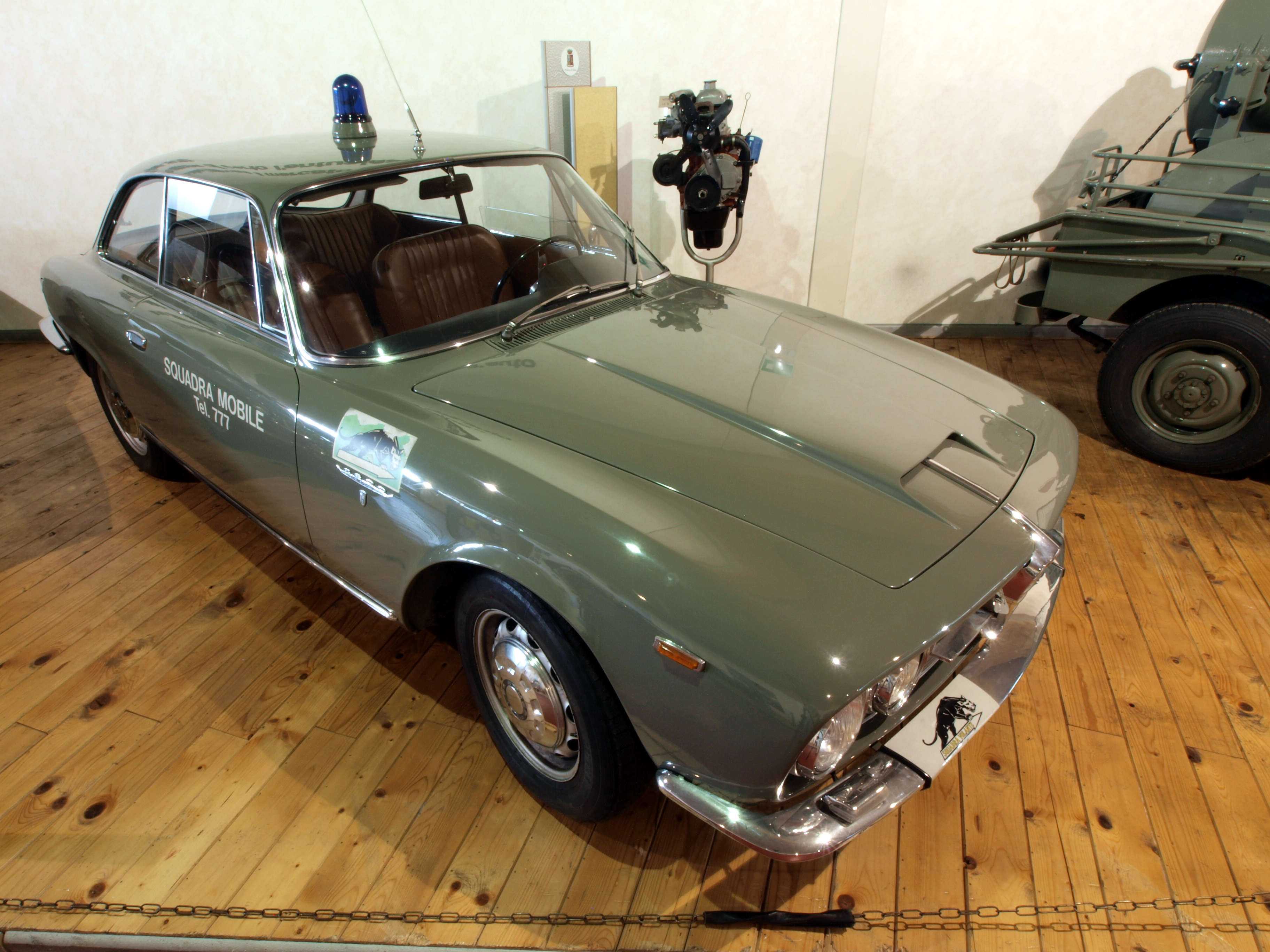 Photographed at Rome, Italy. OLYMPUS DIGITAL CAMERA